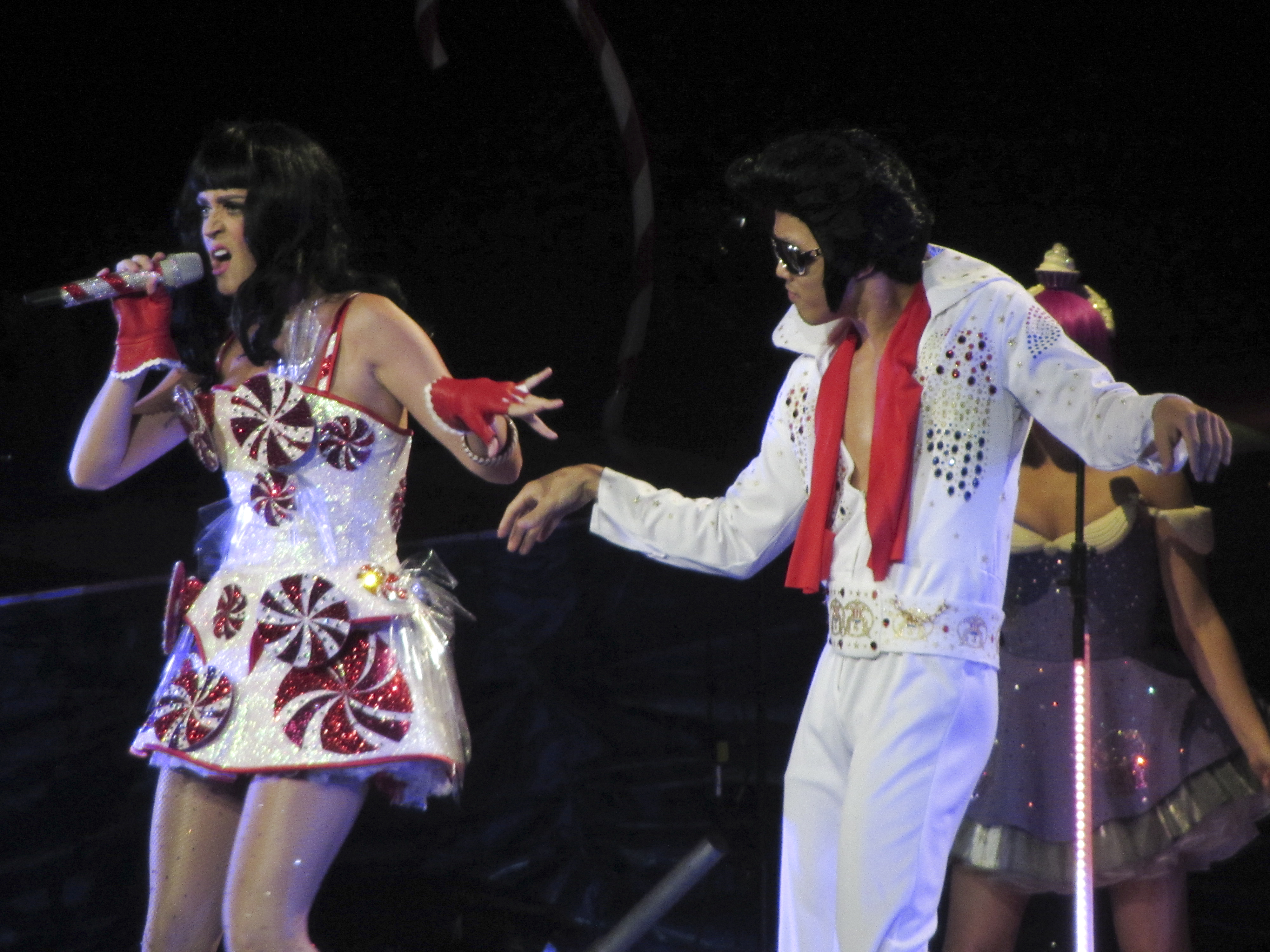 Katy Perry, California Dreams Tour in Pittsburgh, PA on June 23, 2011 at Petersen Event Ceter at the University of Pittsburgh.